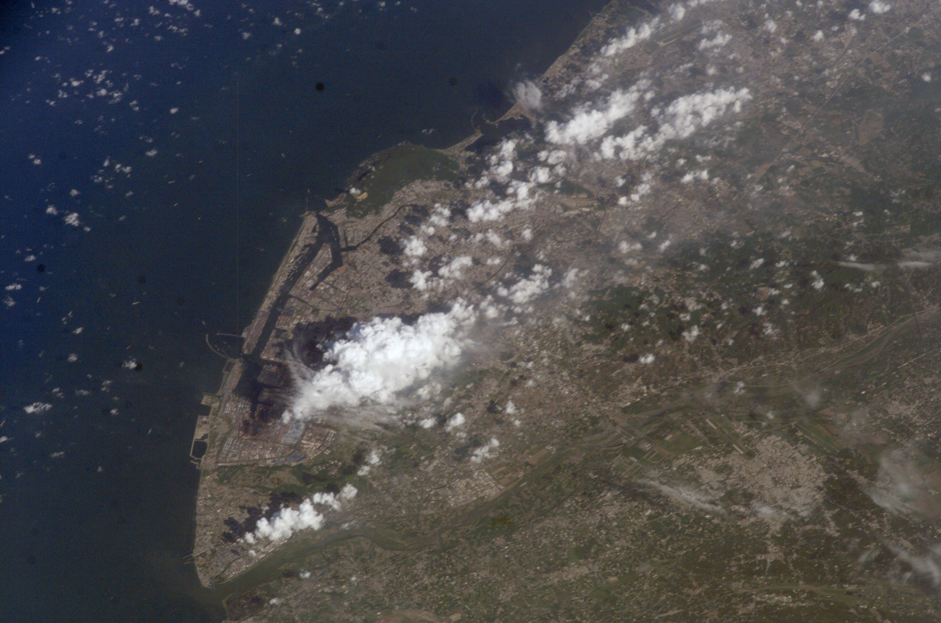 Date: 07.12.2003 Title: TAIWAN/KAOHSIUNG, PORT, ESTUARY Description: TAIWAN/KAOHSIUNG, PORT, ESTUARY ID: ISS007-E-10203 Credit: NASA Johnson Space Center - Earth Sciences and Image Analysis (NASA-JSC-ES&IA)